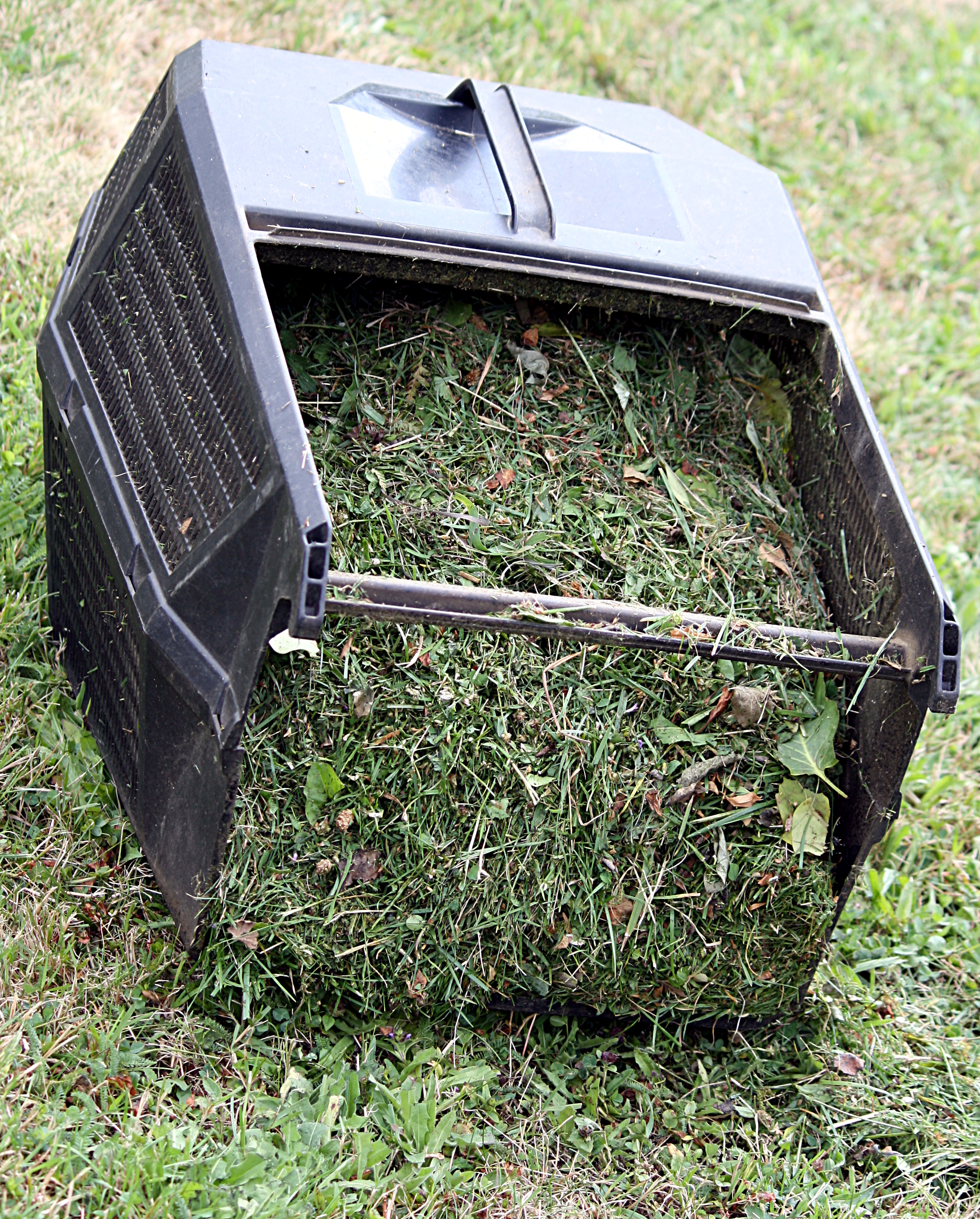 Part of an electric lawn mower ("grass catcher")